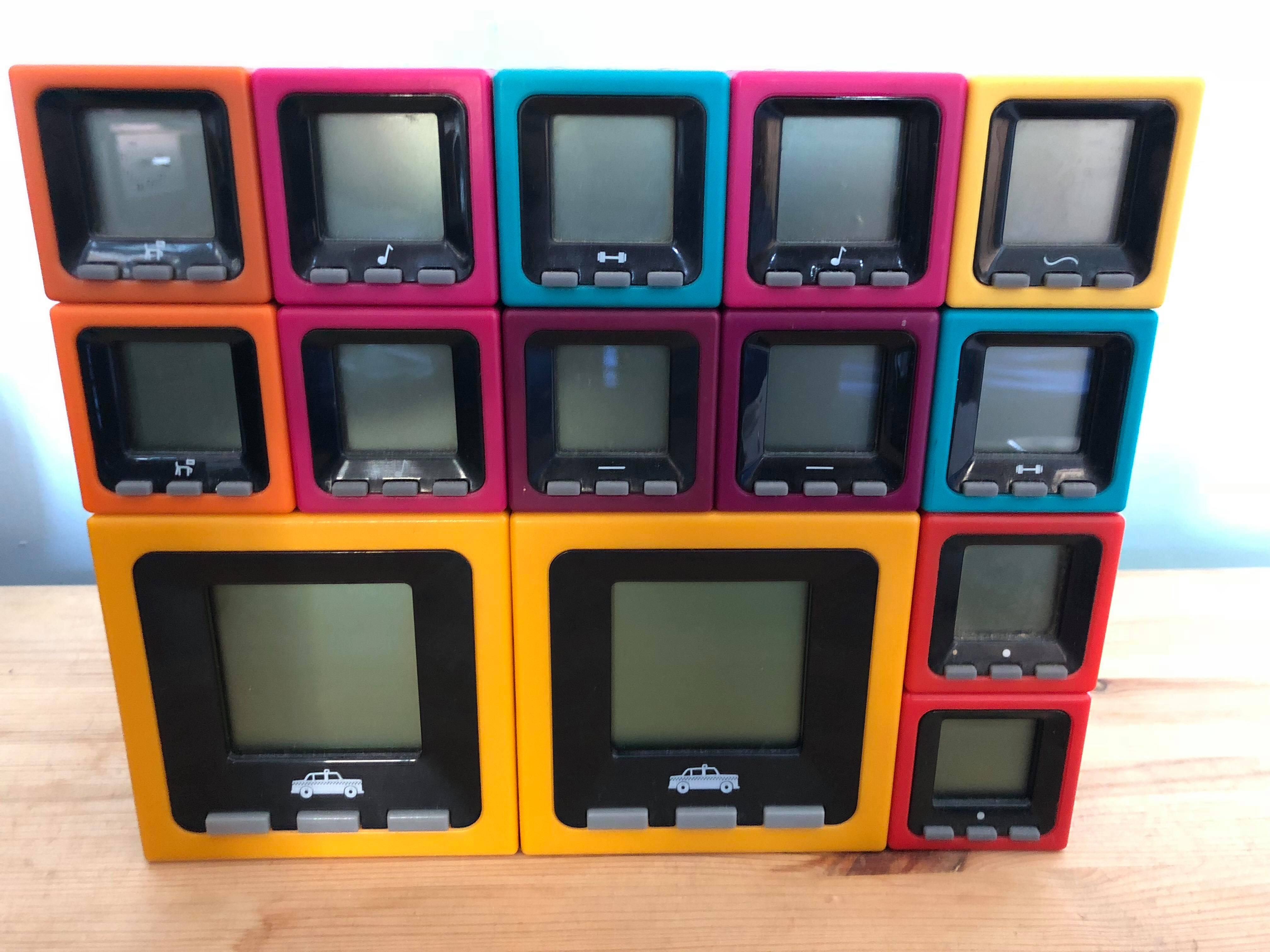 Various Cube World toys by Radica Games